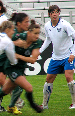 Amy LePeilbet of the (WPS) Womens Professional Soccer Club, Boston Breakers.